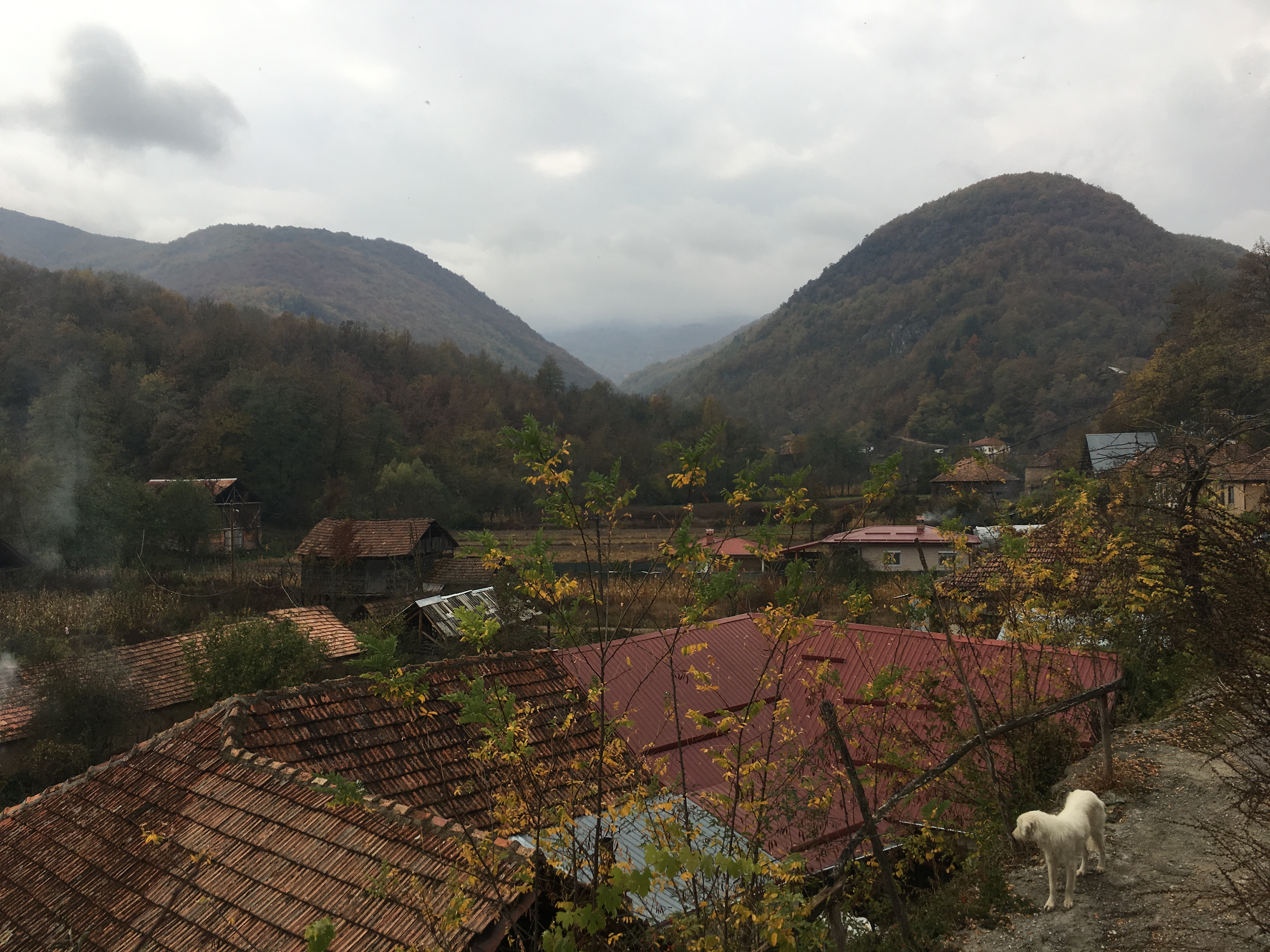 Wikiexpedition to Kopačka